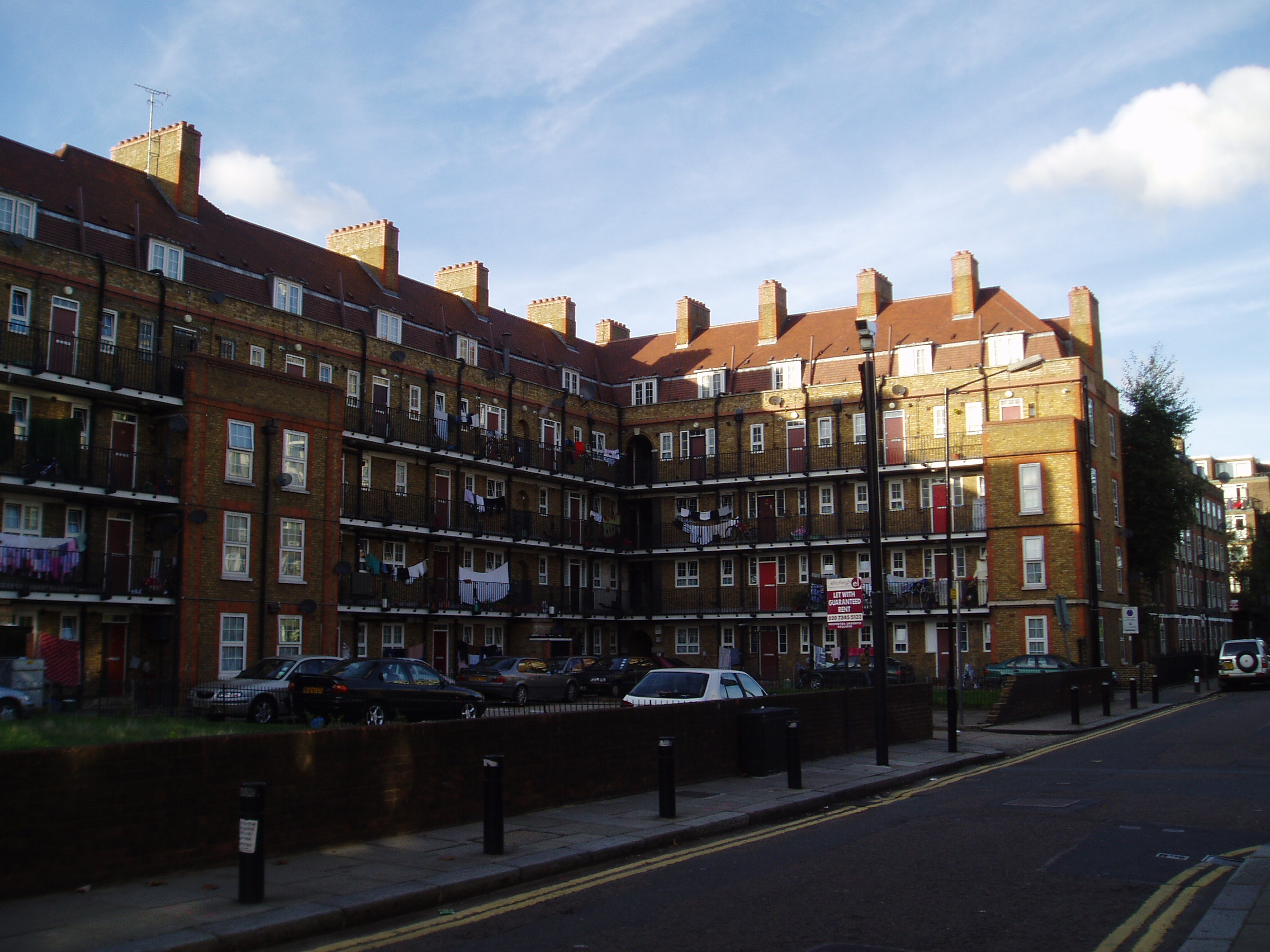 Bullen House, Whitechapel - London, UK.